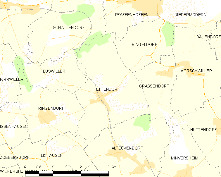 Map of French municipality